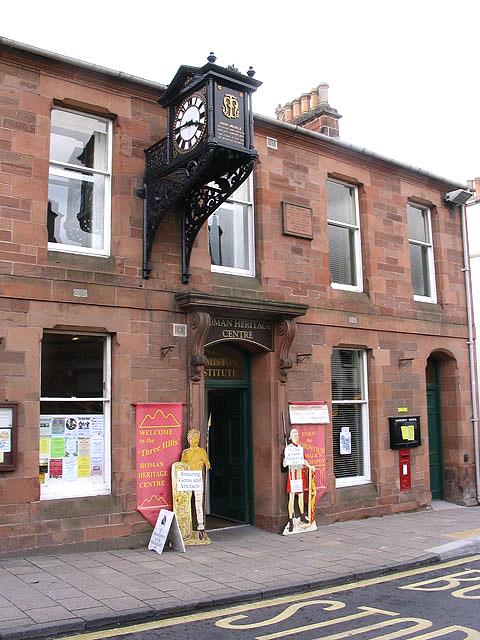 Roman Heritage Centre in Melrose Housed in The Ormiston, The Square, Melrose, The Three Hills Roman Heritage Centre is organised and run by the Trimontium Trust. Above the entrance door is a cast-iron Memorial Clock, 1892, on ornamental brackets. For more information on the museum